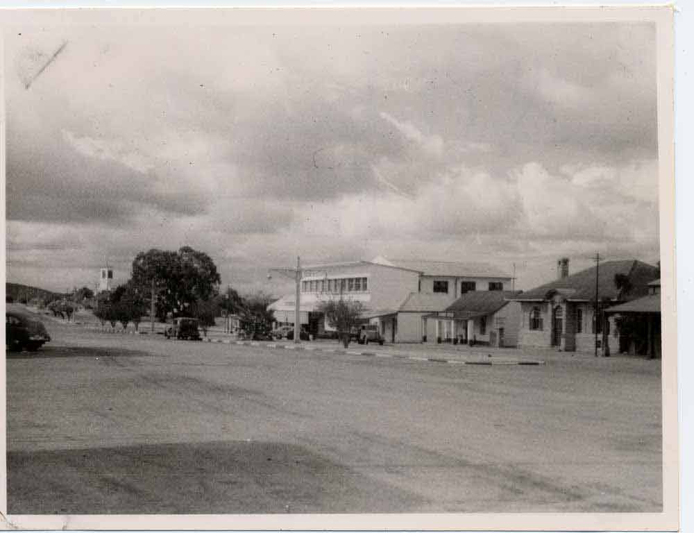 Masvingo (Fort Victoria) 1952. Copy of a private original photograph.